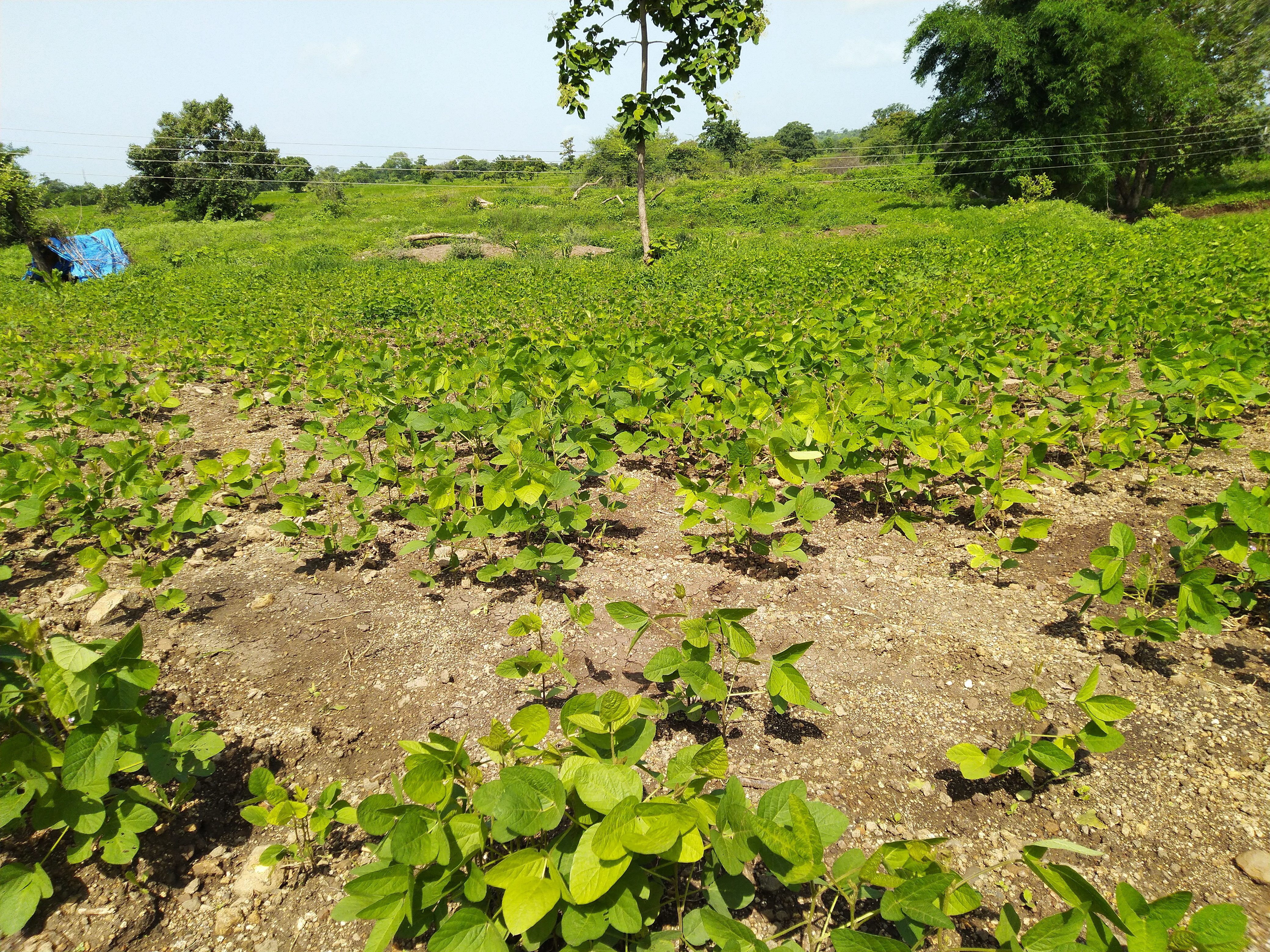 Soyabean field in the area of Jamthi Kh. village, Tq. & Dist. Hingoli, Maharashtra on the Deccan Plateau, India.